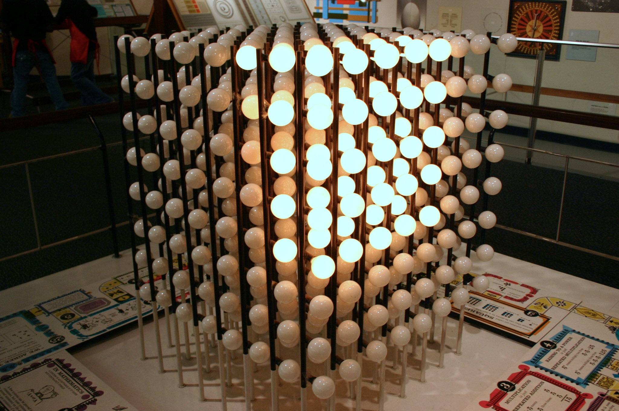 Part of the Eames Mathematica exhibit.